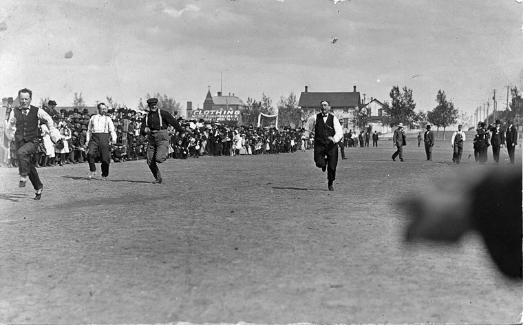 1906 13.8 cm x 8.7 cm Black and white postcard Photograph postcard of competitors in a foot race in Galt Gardens. The park was the location for many social, cultural and sporting events in the first half of the twentieth century. To obtain high quality and larger reproductions of this image please visit the Galt Museum & Archives website: and include thIs number in your request: 19640504000